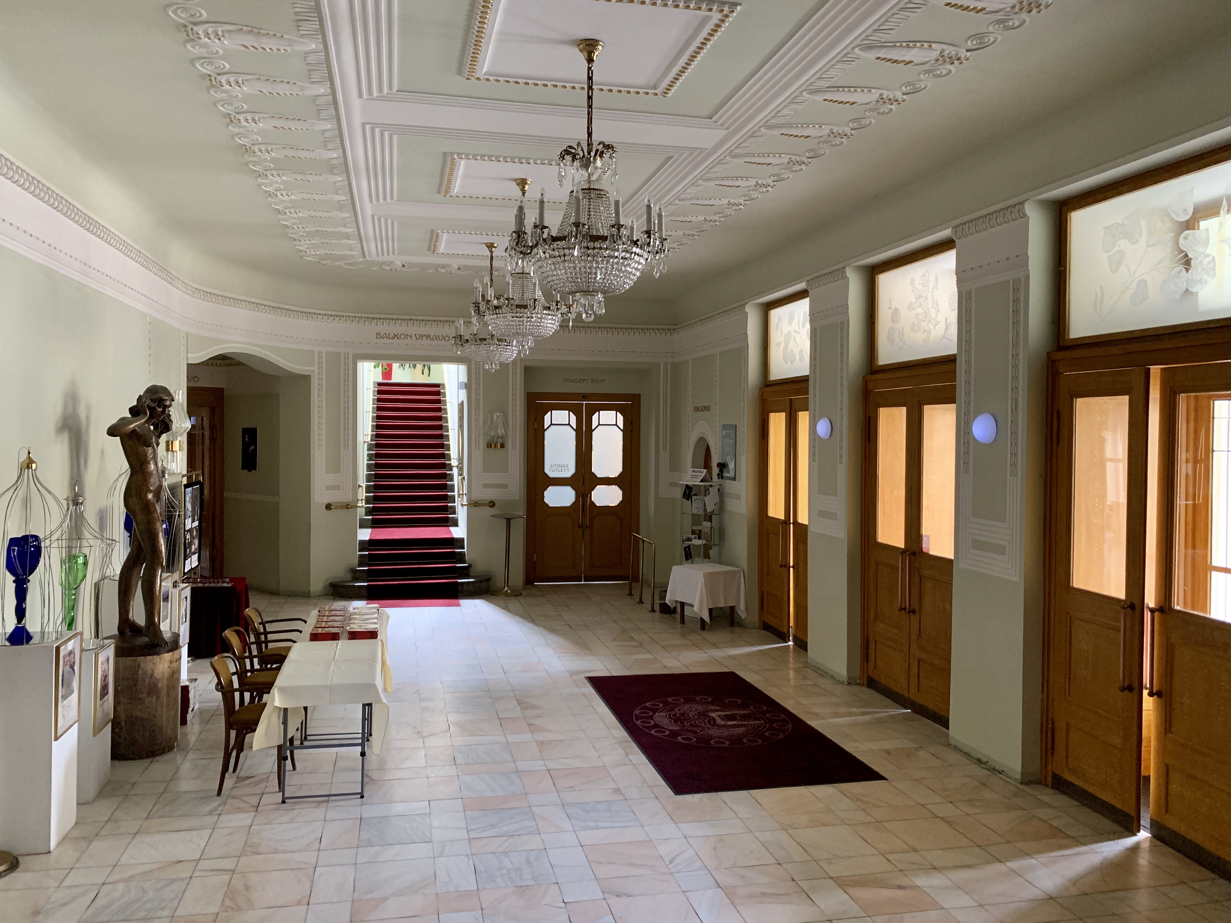 City Theatre, Mladá Boleslav. Main foyer. Interior by Fellner & Helmer, 1906–1909